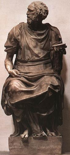 San Damiano by Raffaello da Montelupo (circa 1534), created for the New Sacristy of the Basilica di San Lorenzo in Florence